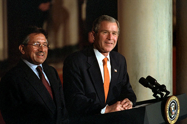 US-president George W. Bush and Pakistani President Pervez Musharraf address the media in Cross Hall.